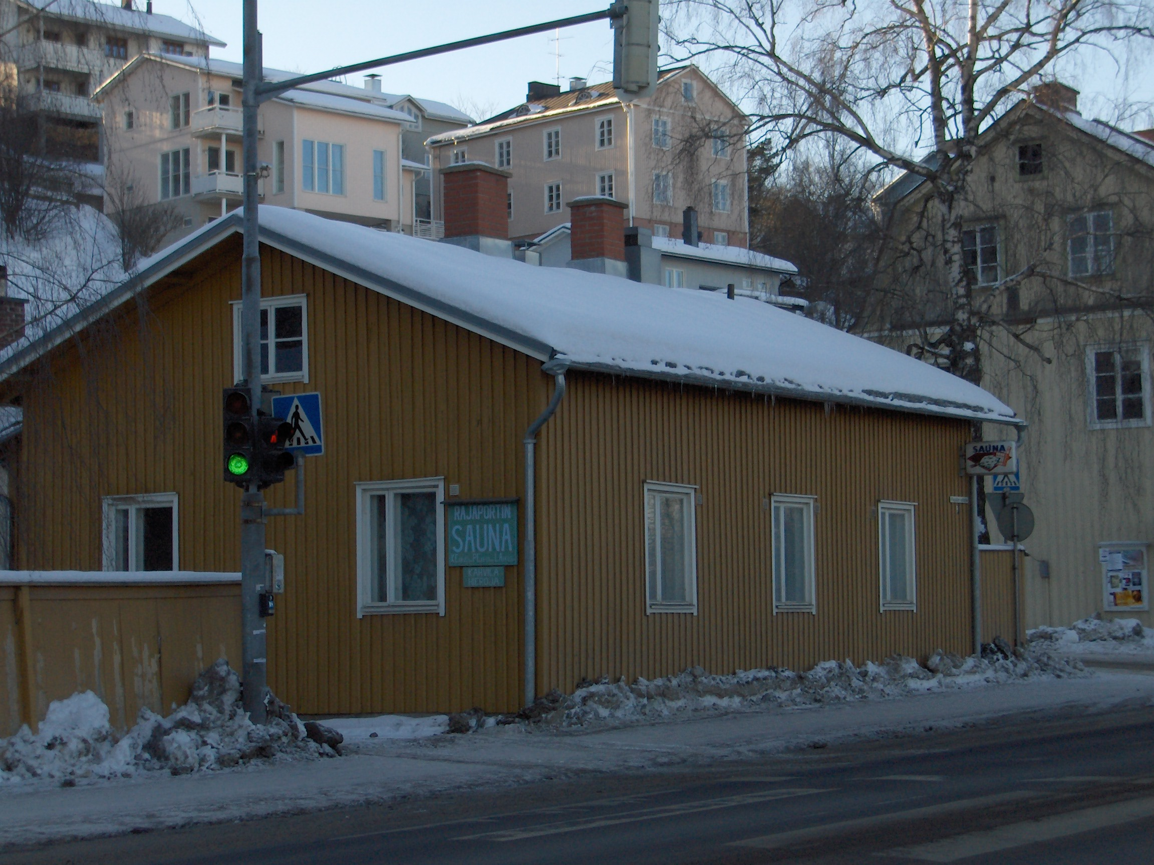 Rajaportti sauna in Tampere